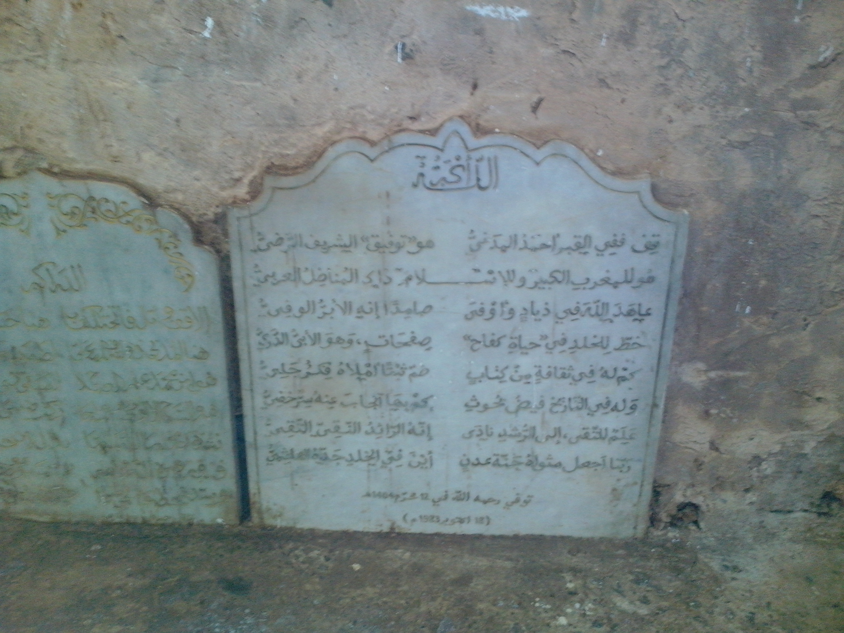 tombe